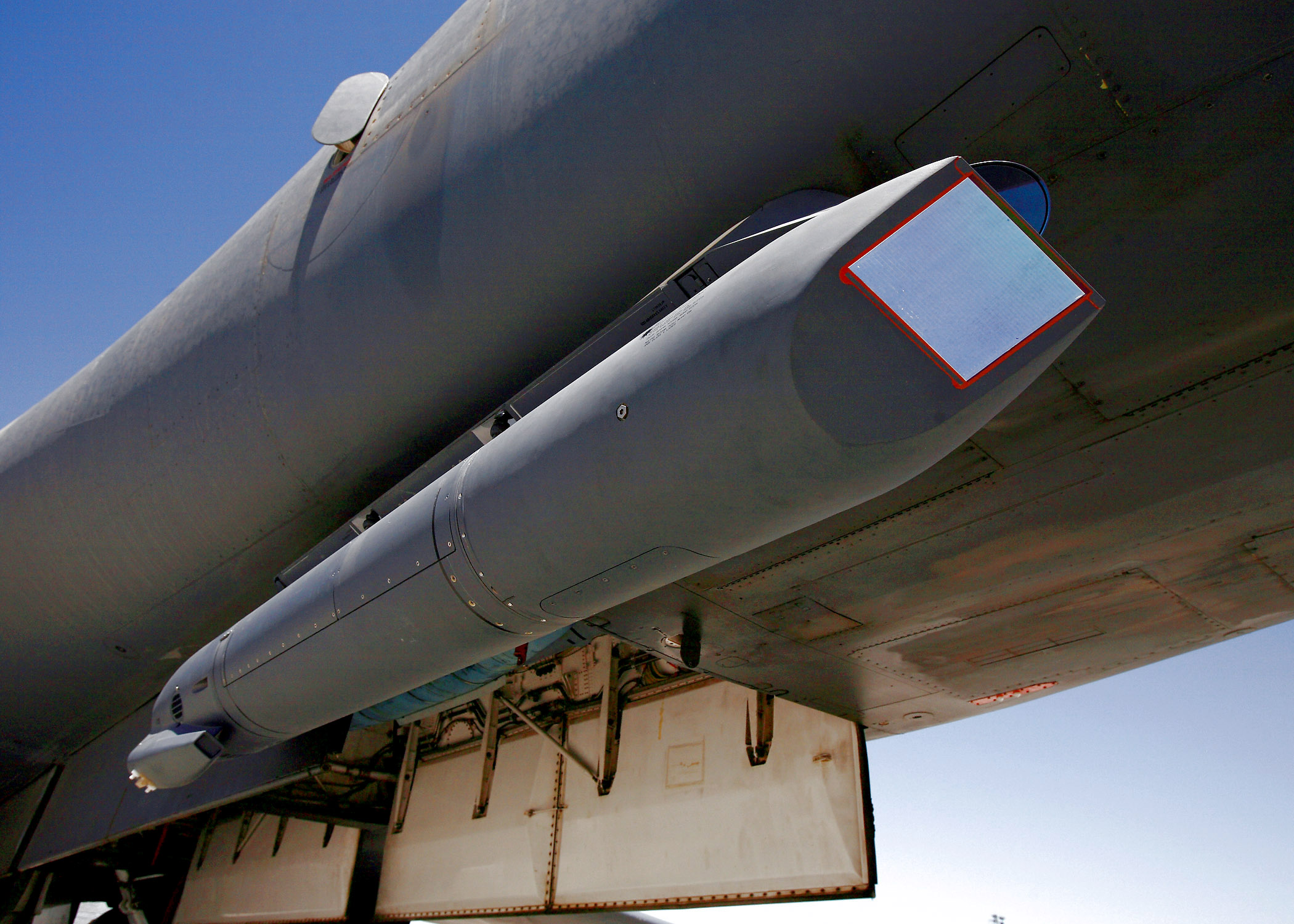 Sniper ATP mounted unter the fuselage of a B-1B